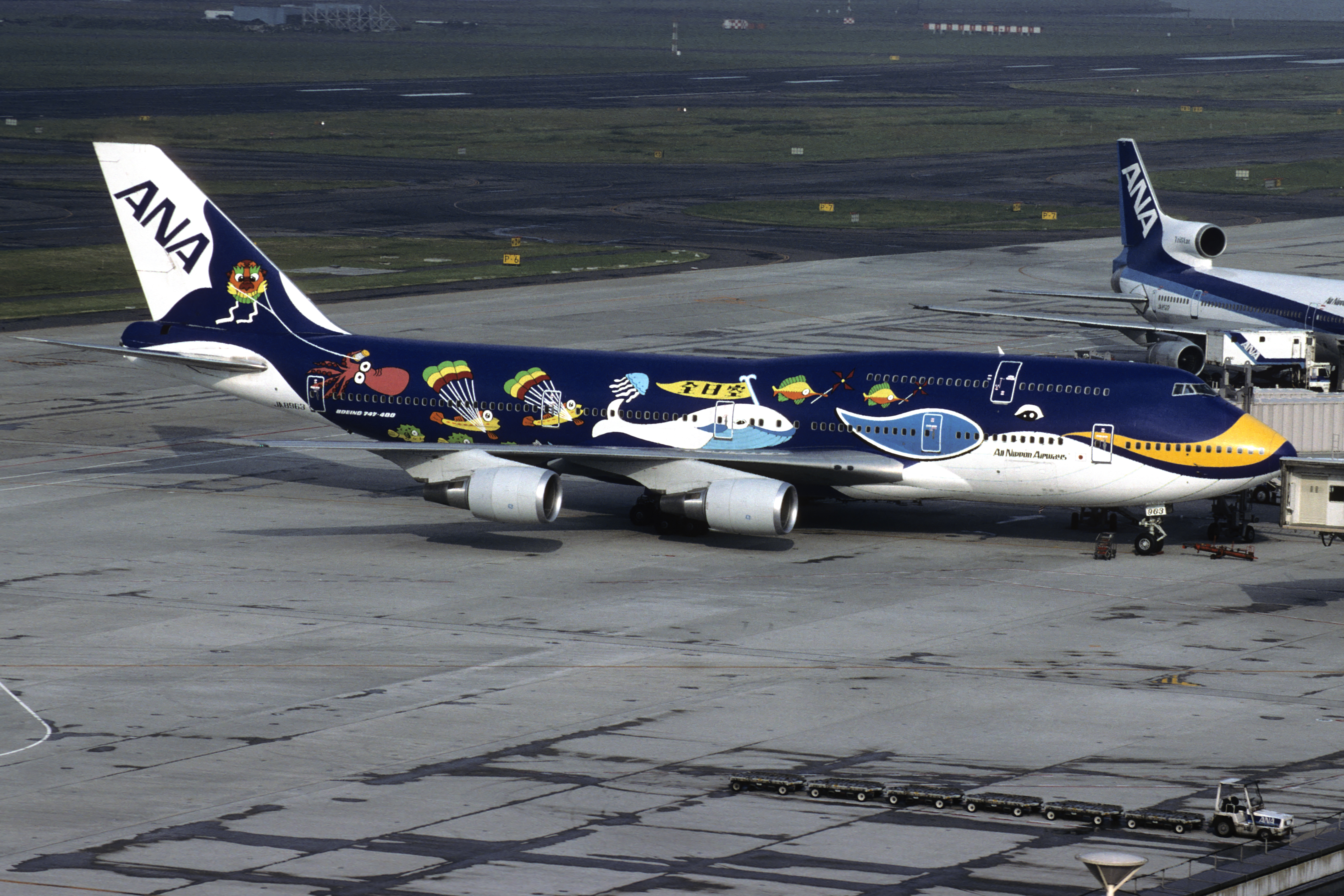 All Nippon Airways Boeing 747-481D (JA8963) at Tokyo International Airport